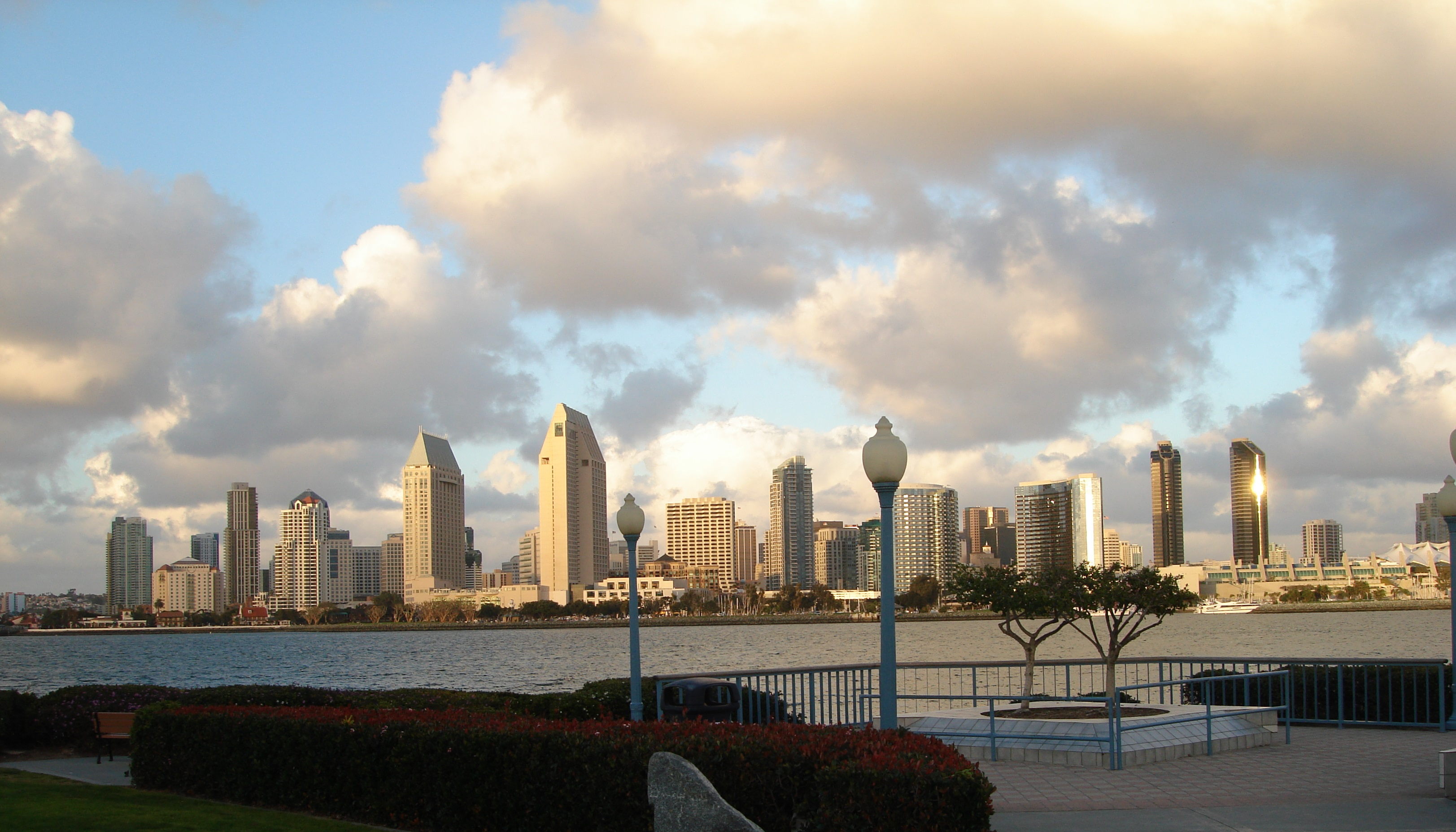 San Diego, CA USA - View from Coronado